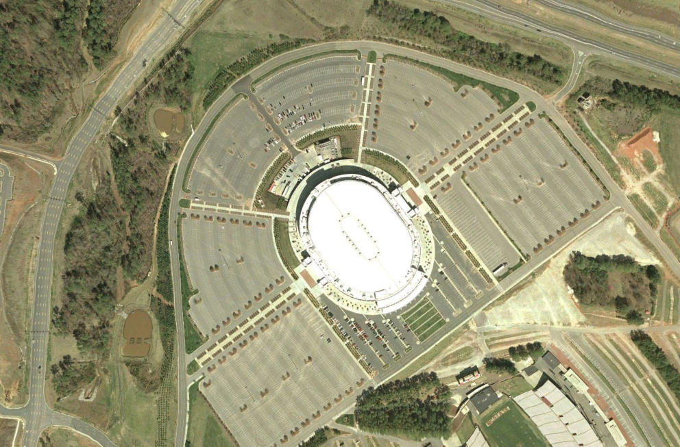 RBC Center satellite view, nasa world wind 1.3.5